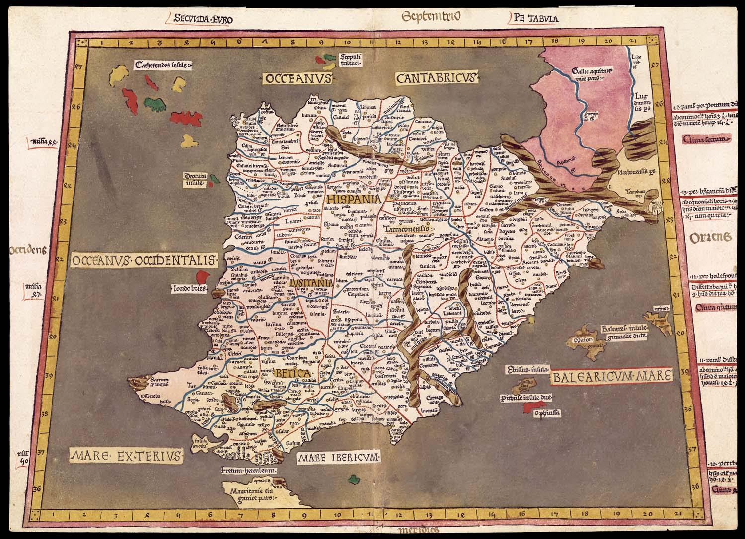 The Second Map of Europe, depicting Roman Portugal (Lusitania) and Spain (Betica and Hispania Tarraconensis), from Johann Reger's reprint of the Ulm Ptolemy.